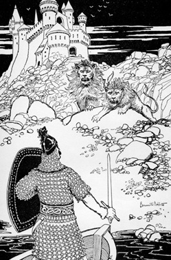 Illustration from Legends of King Arthur & His Court From image: Launcelot beholds the towers of Castle Carbonex